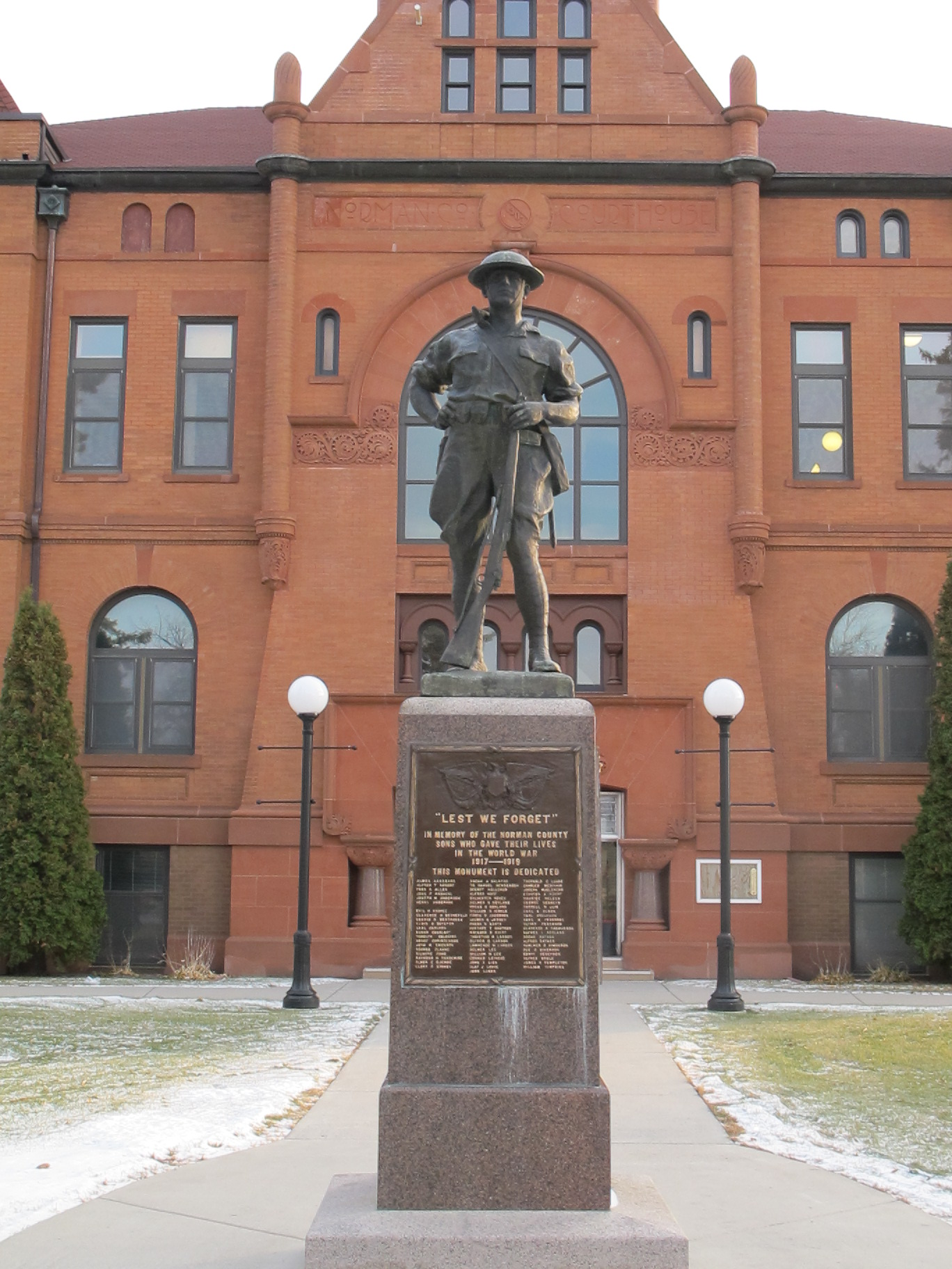 This Solders' Memorial stands on the north side of the building.